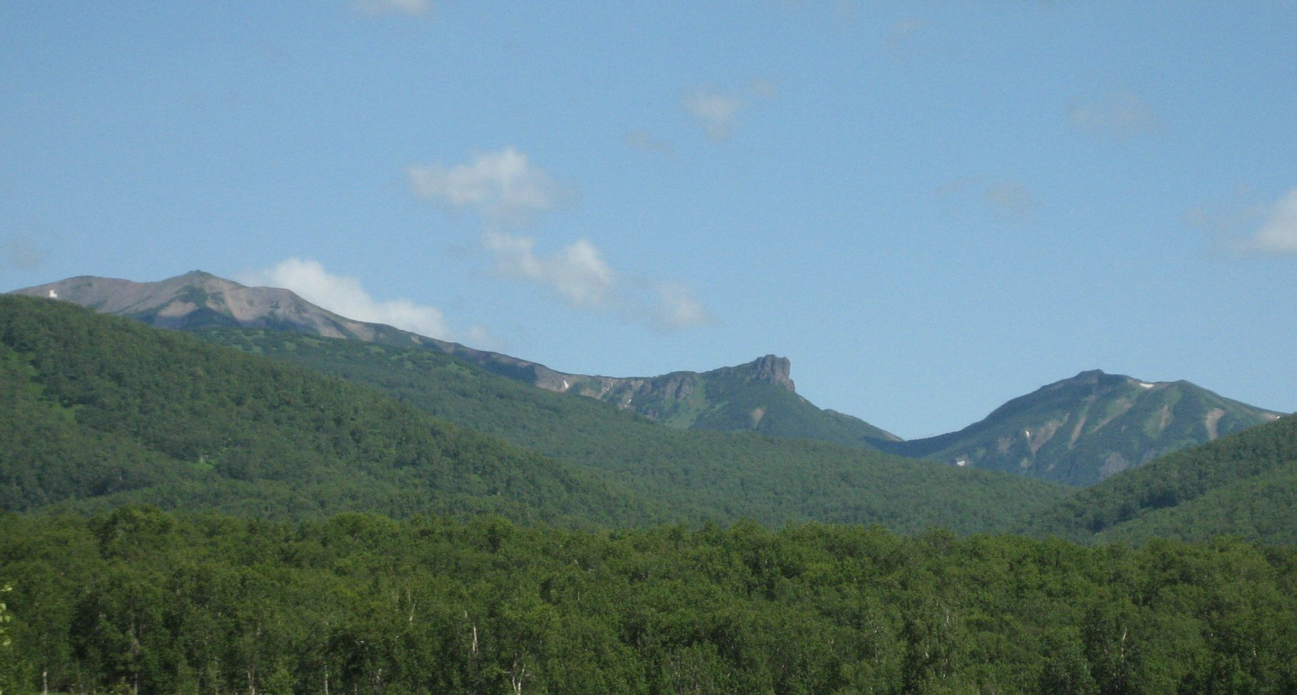 Three mountains of Ivulk ridge in Kamchatka: Golovnin mountain, Kachey rock, and Rickord mountain, they together are so called «mountains of Russian-Japanese friendship».